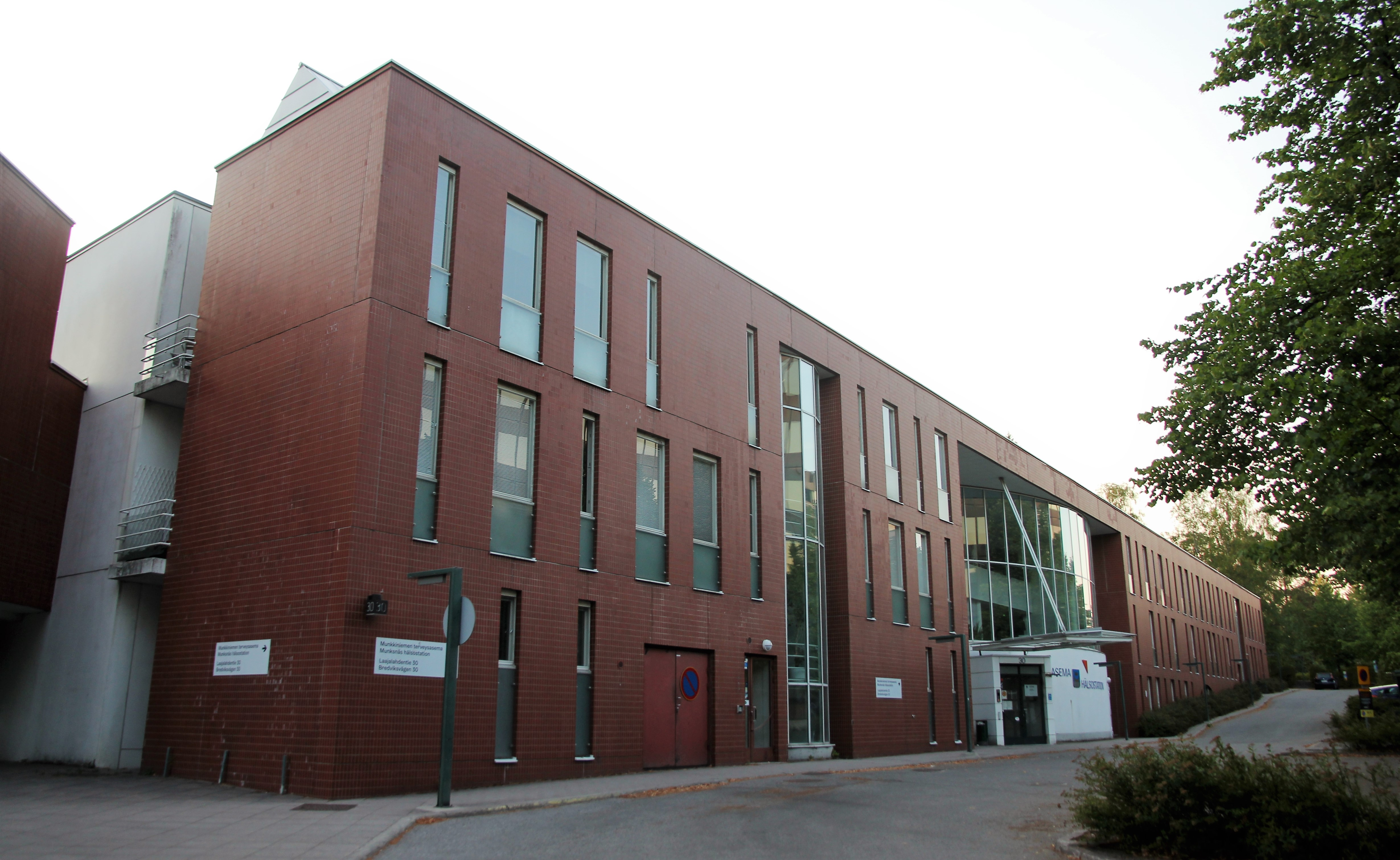 Munkkiniemi Health Station. Address: Laajalahdentie 30, 00330 Helsinki.